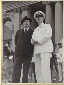 Sir Robert Gordon Menzies (Prime Minister of Australia) and Admiral Ragnar Colvin, Sydney, Australia, HMAS Perth (D29) march